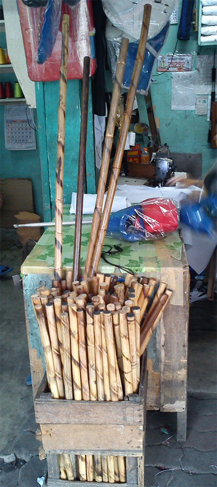 Rattan and bahi bastons and bangkaws being sold in a martial arts shop at Quiapo, Manila